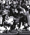 A press photograph of San Francisco 49ers linebacker Dave Wilcox.